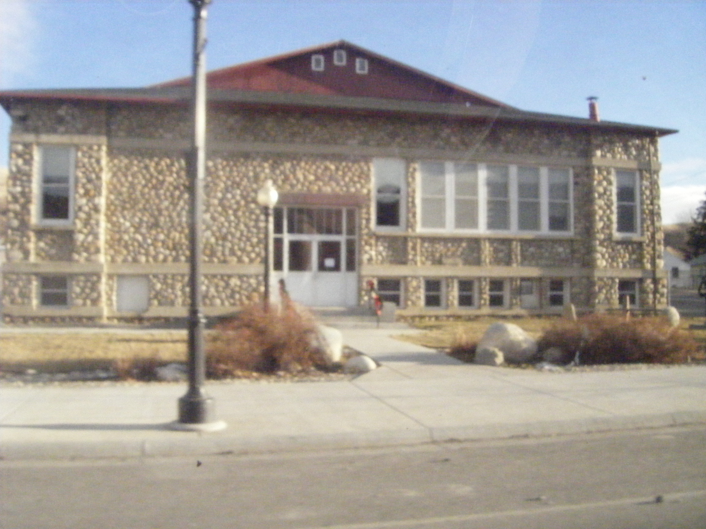 The Cobblestone School, a historic school building in Absarokee, Montana, United States.